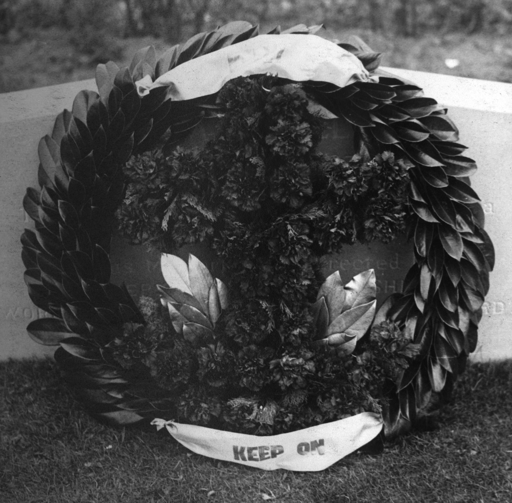 The is a photograph of the Memorial In Hebburn Cemetery to the officers and Men of HMS Kelly who lost their lives off the German Minefields in the North Sea 9th May 1940 and at Crete 23rd May 1941. Reference: 2931-43-05 This image is taken from an album produced by the world famous shipbuilding and engineering firm of Hawthorn Leslie. The album gives us a fascinating glimpse of life at the company's shipyard at Hebburn from the late 1930s to the 1960s. There are remarkable images of the men at work in the yard and a poignant series showing the terrible damage caused during the Second World War to HMS Kelly, one of Hawthorn Leslie's best loved ships. This particular collection of images follows the Birth and ultimate Death of a ship. From the craft and pride in its production and the joy in its performance, to the devastation and price of its destruction. A blog about this fascinating collection can been viewed on the Tyne & Wear Archives & Museums website. (Copyright) We're happy for you to share these digital images within the spirit of The Commons. Please cite 'Tyne & Wear Archives & Museums' when reusing. Certain restrictions on high quality reproductions and commercial use of the original physical version apply though; if you're unsure please